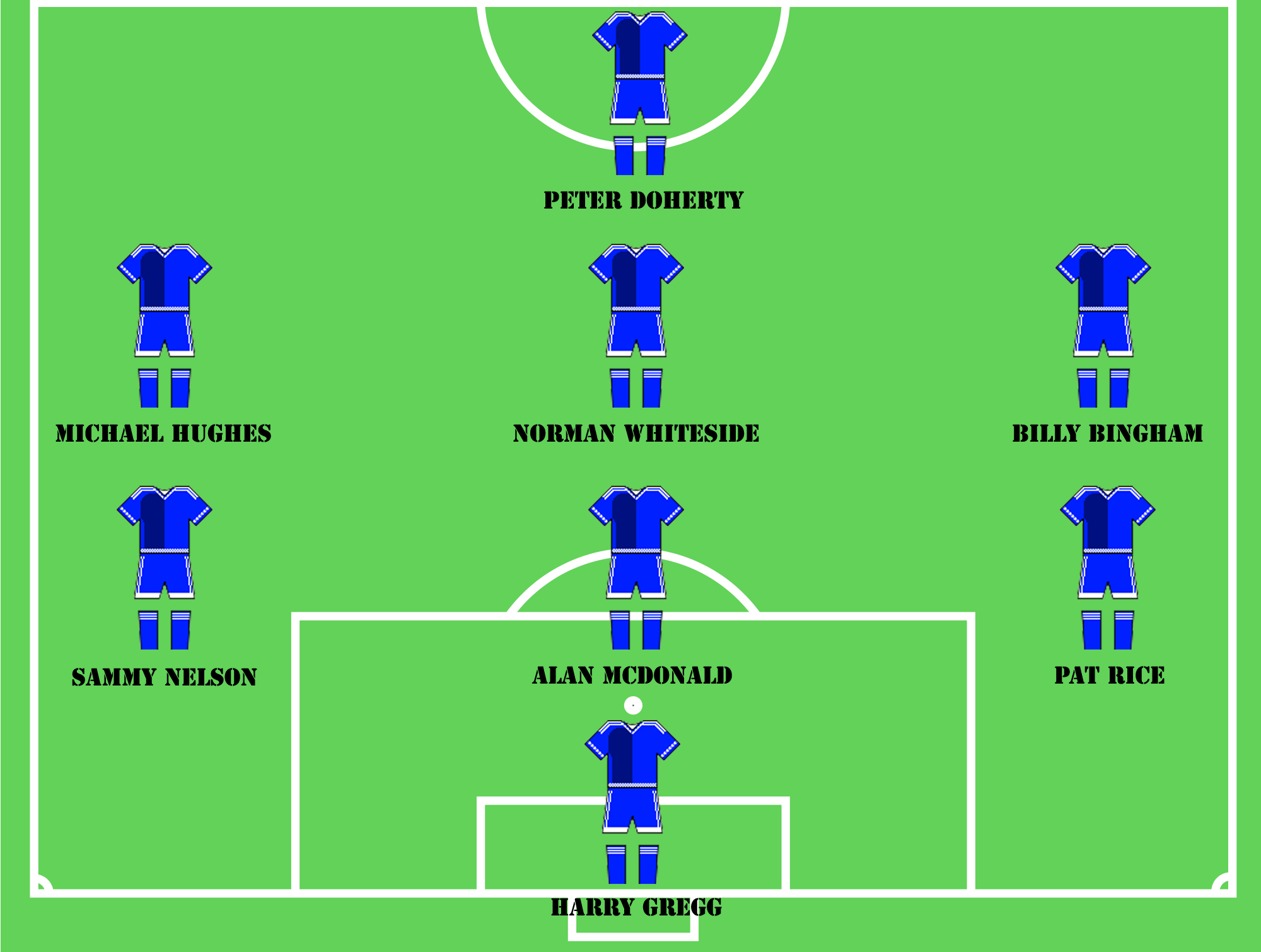 Irish FA Greatest Ever Team Subs